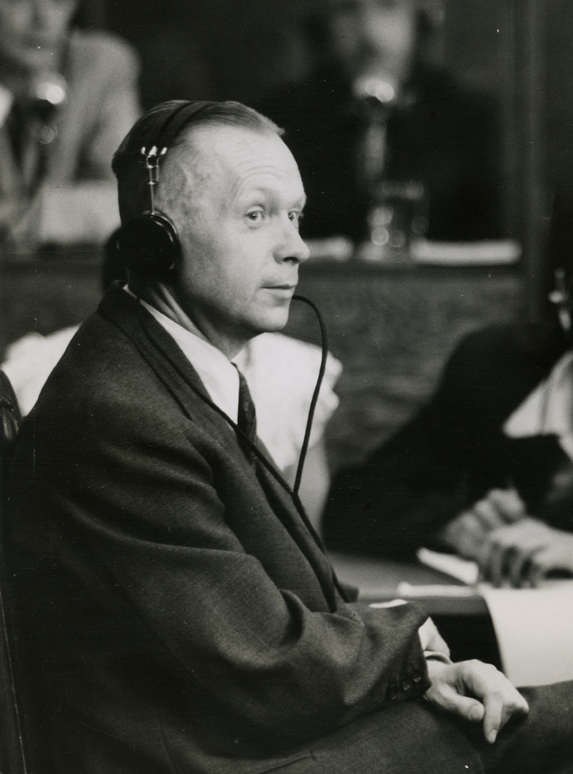 Prosecution witness Manfred Roeder sits on the witness stand at the Nuremberg Trials. OMGUS Military Tribunal - Case Three OMT-III-W-72